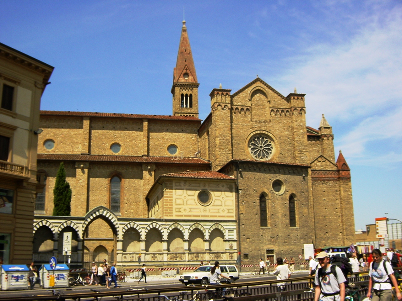 Florence, Italy. The church of Santa Maria Novella. Flank.